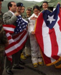 Photo of Puerto Rico Governor Aníbal Acevedo Vilá holding American flag.